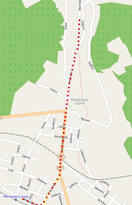 Tramway Marienbad (1950)